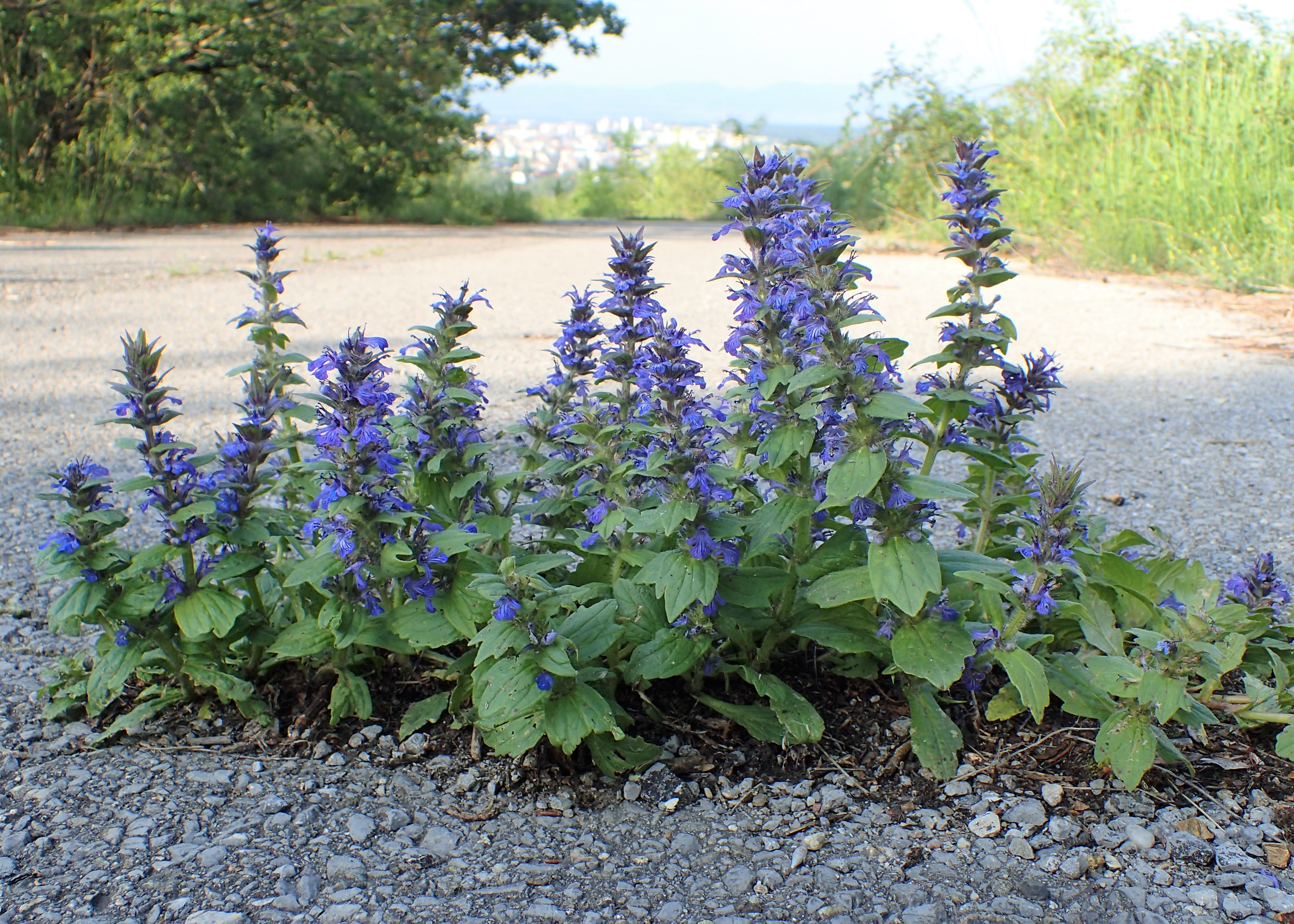 Ajuga genevensis in botanical garden of the Bulgarian Academy of Sciences